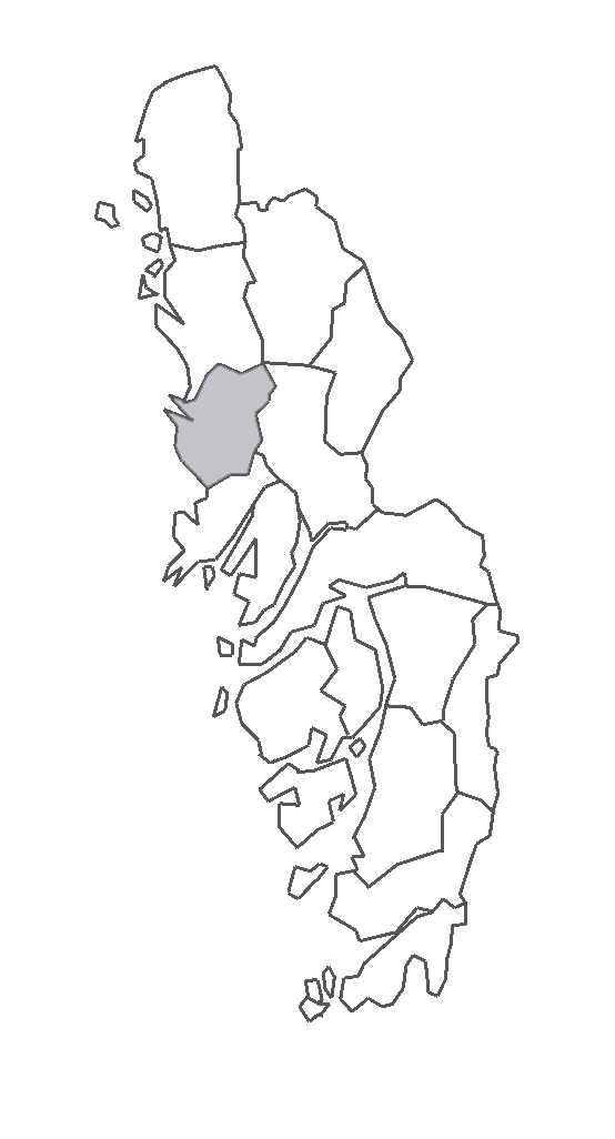 Map describing the location of Kville Hundred in Bohuslän Province, Sweden.